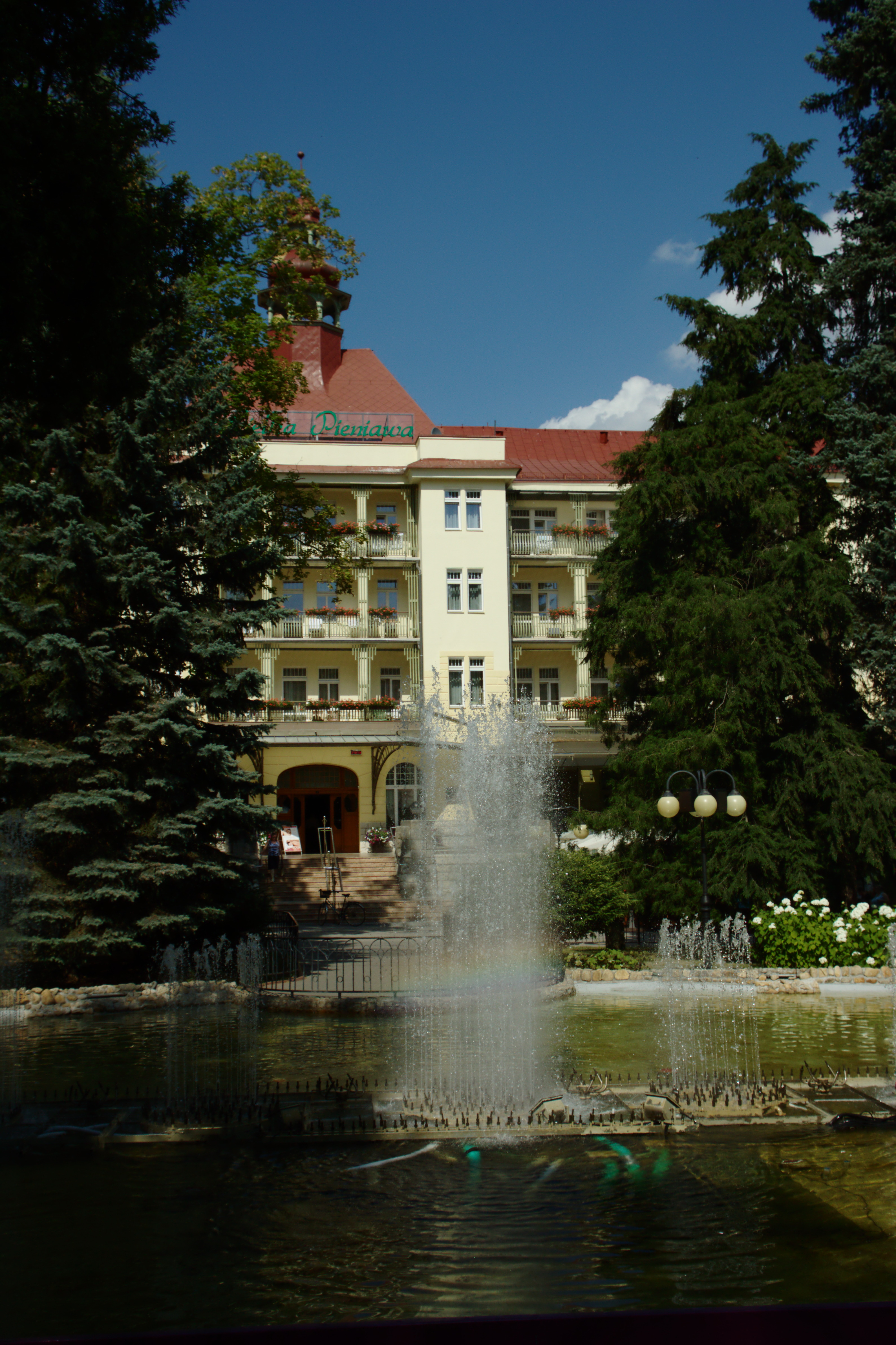 A fountain in front of the spa in Polanica-Zdrój, Poland